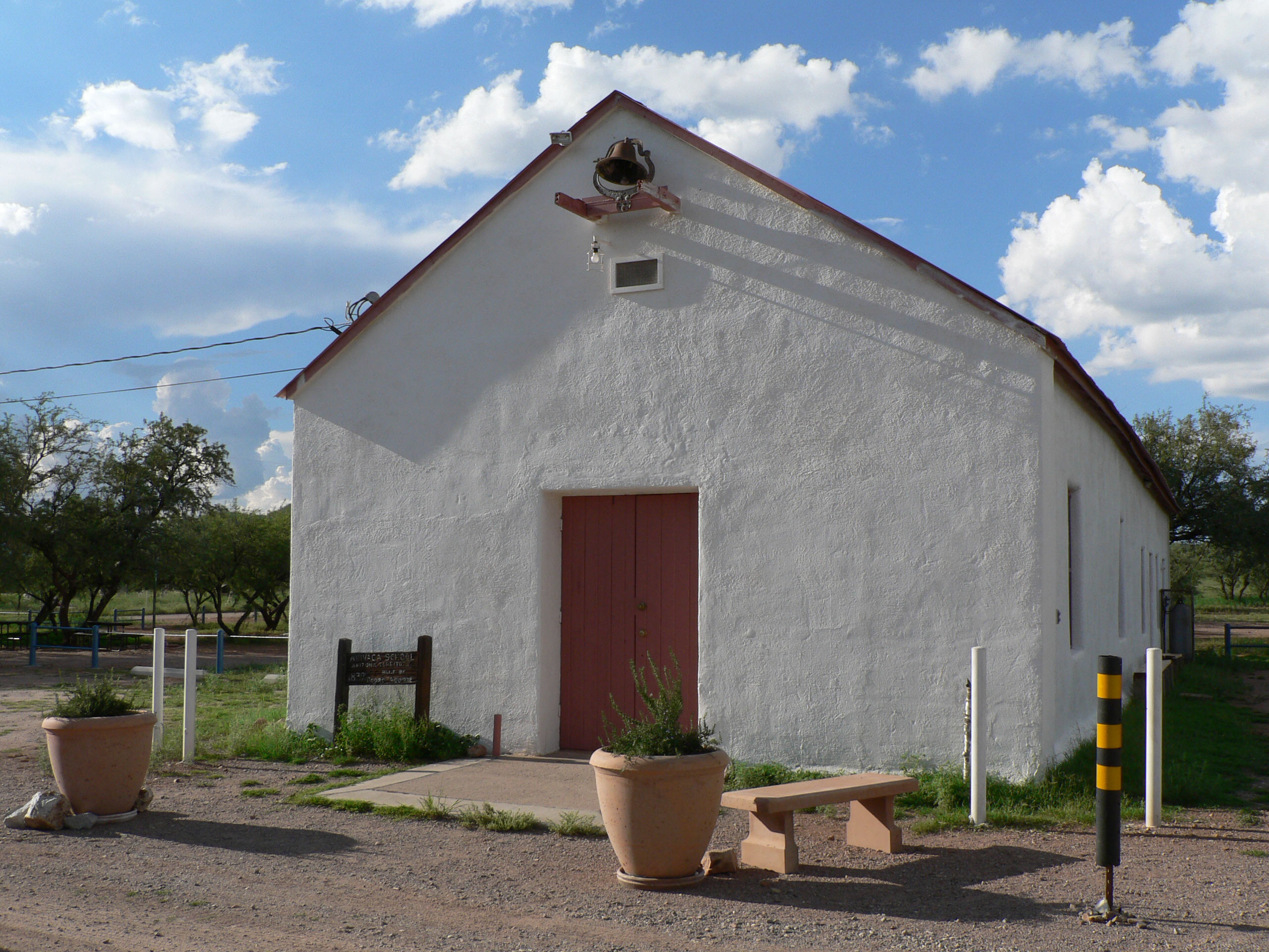 Picture of Arivaca Schoolhouse, built 1879 by rancher Pedro Aguirre